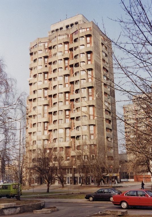 Residential Building by Jadwiga Grabowska-Hawrylakowa, 60s. Poland, Wroclaw (Breslau), plac Grunwaldzki.